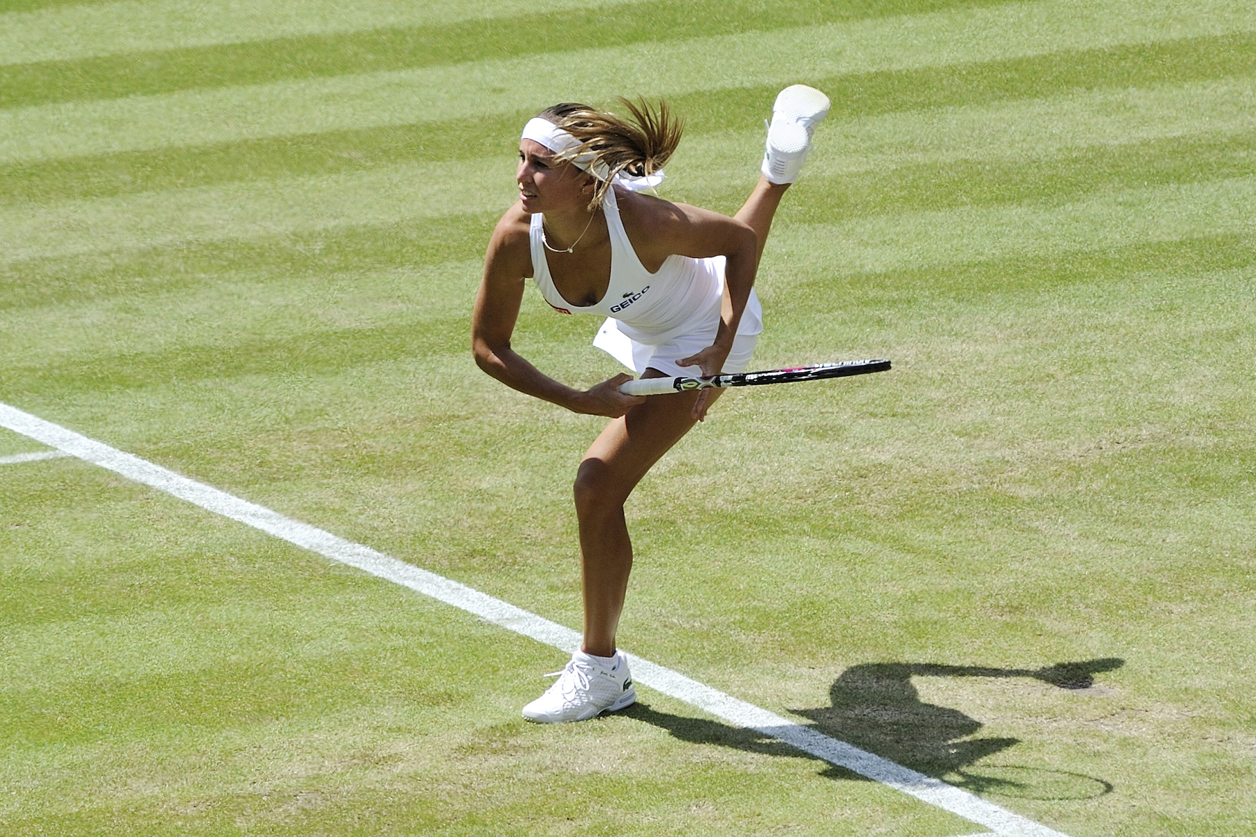 Gisela Dulko against Maria Sharapova in the 2009 Wimbledon Championships second round